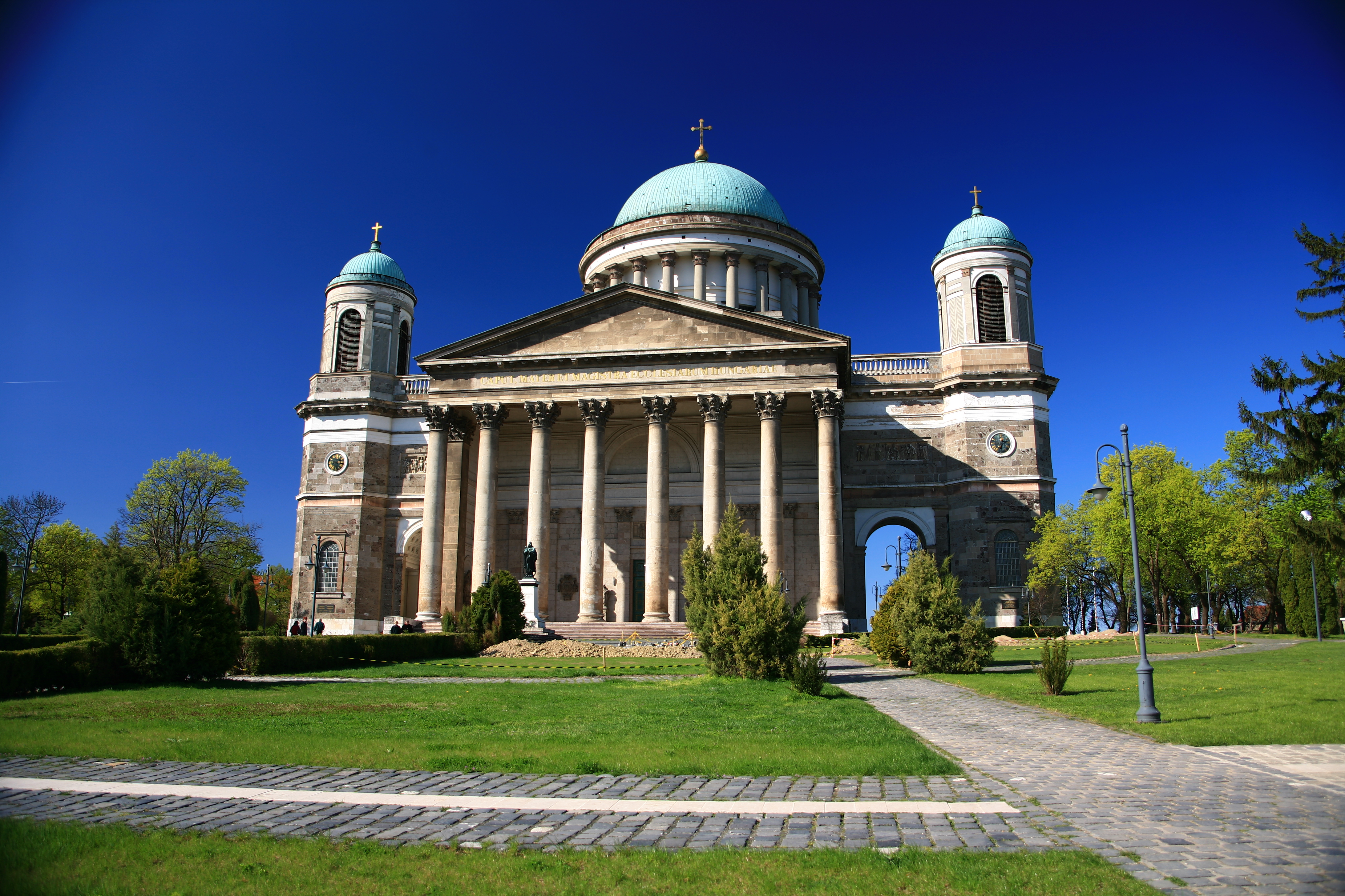 The tallest building in the country, this cathedral is the seat of the Catholic Church in Hungary. Built atop the ruins of several older churches, the original foundation dates back to the year 1000 AD. Esztergom, Hungary